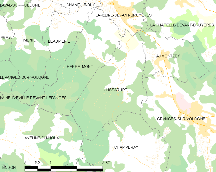 Map of French municipality Jussarupt